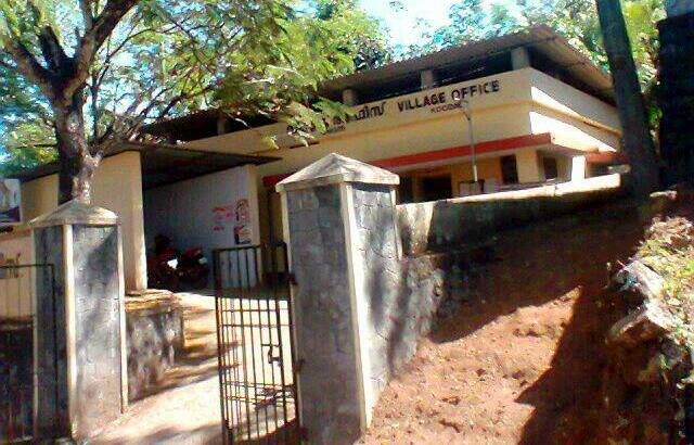 Picture of Koodal Village Office